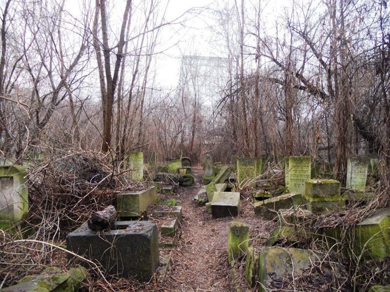 Jewish cemetery in Chișinău, Republic of Moldova